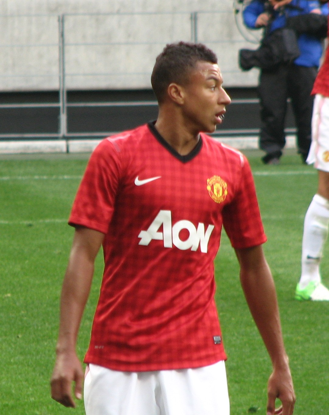 Manchester United's Jesse Lingard prepares to defend a corner during a friendly match against South African side Ajax Cape Town on 21 July 2012.